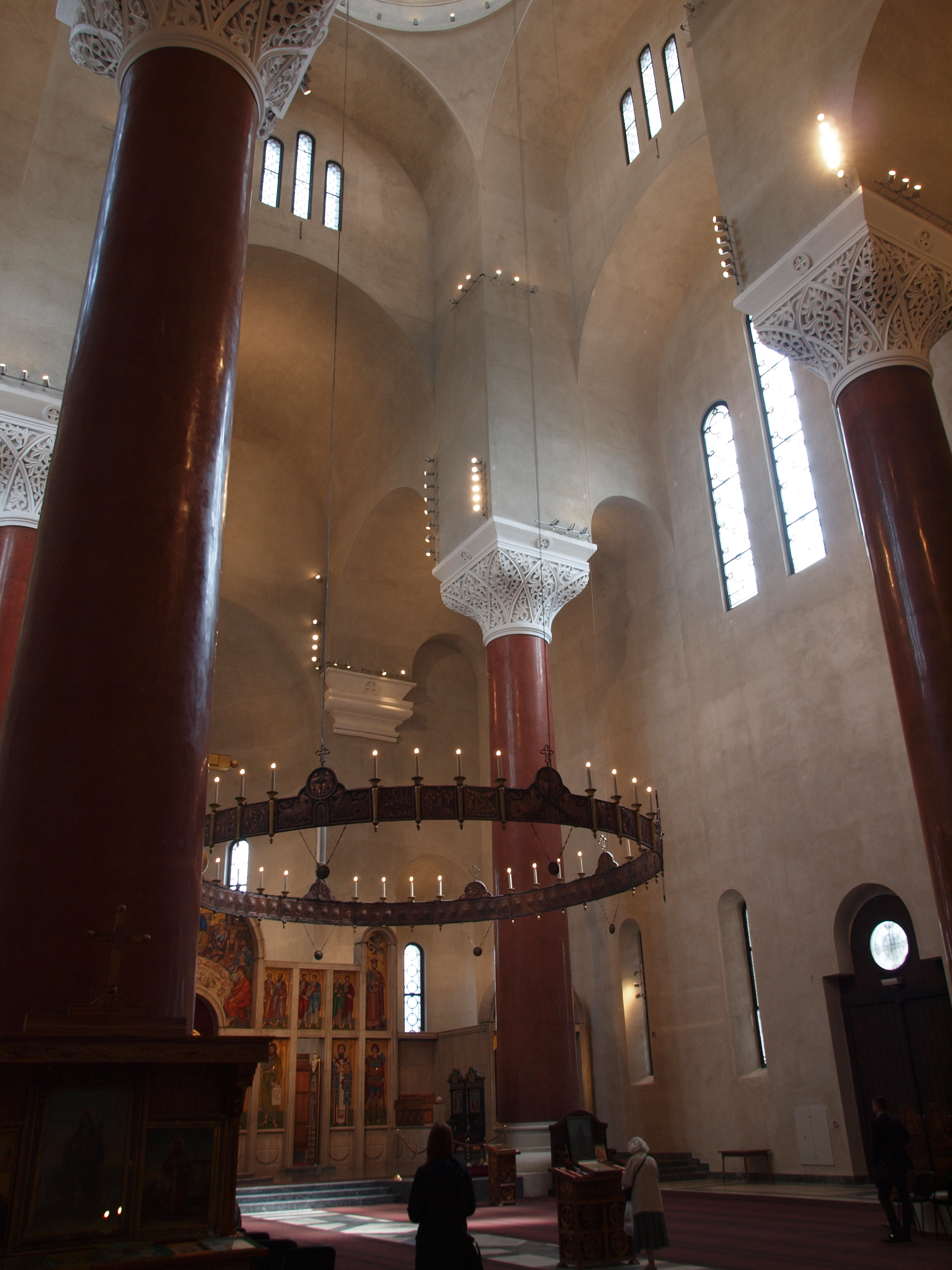 polijeleja 1 sv marko